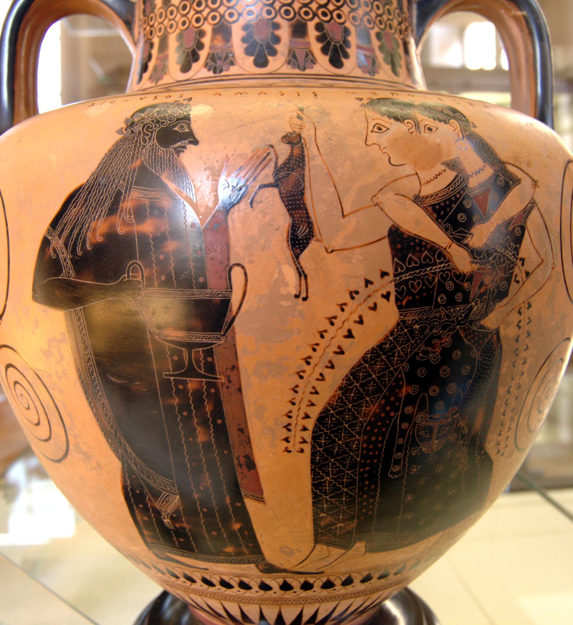 Side B: Dionysos (named) and two maenads, one holding a hare; Amasis' signature (Αμασις vac. μεποιεσεν).